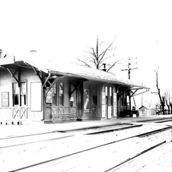 The Carlton Hill Erie Railroad station on the main line in Carlton Hill, New Jersey.